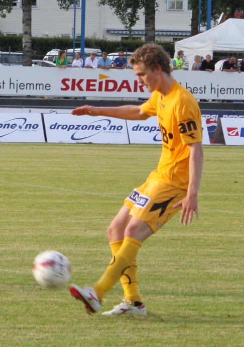 Ruben Imingen playing for Bodø/Glimt in away game against Follo on 8 August 2010.